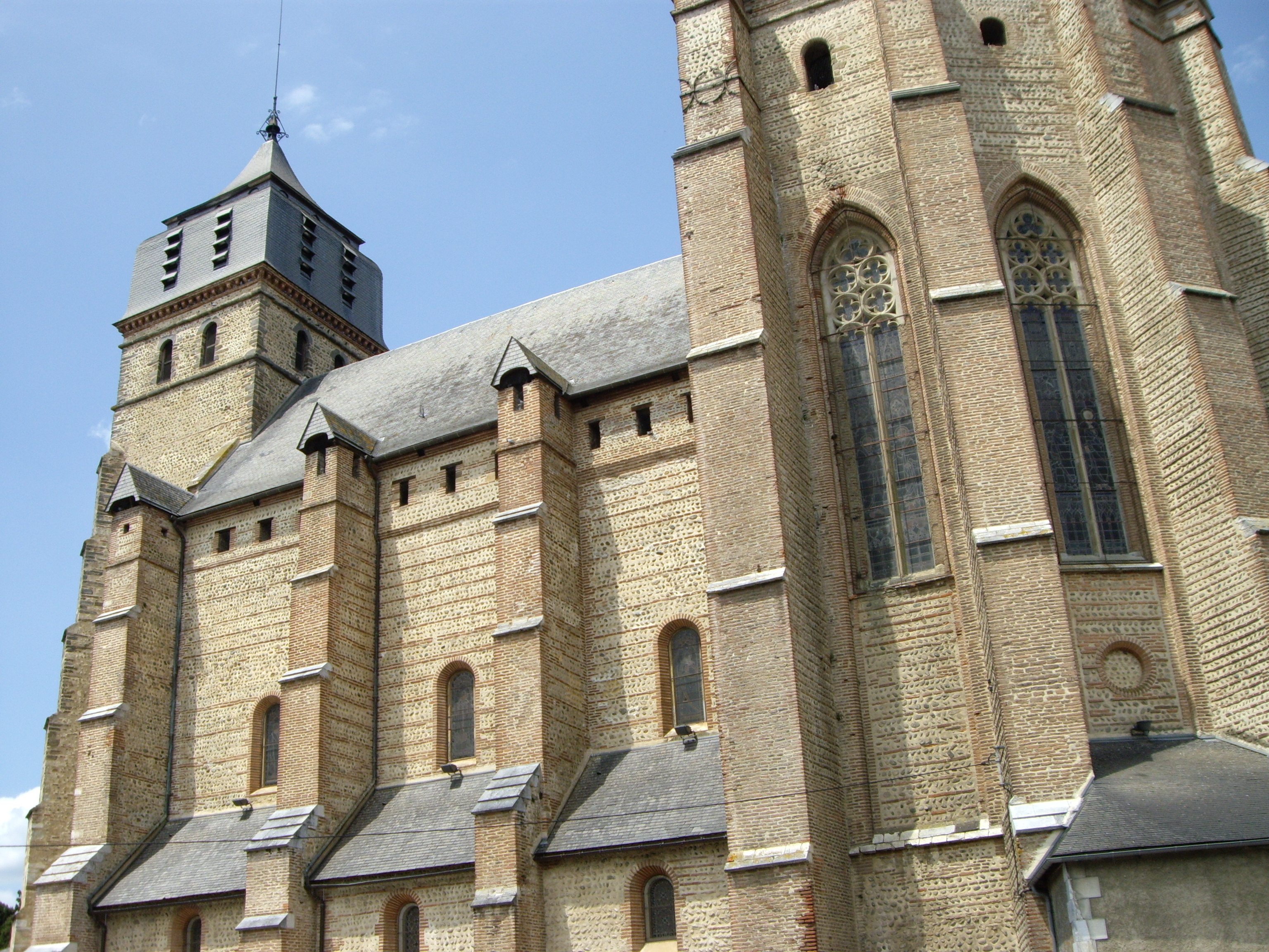 St. Lawrence Collegiate Church, Ibos, Hautes-Pyrénées, France